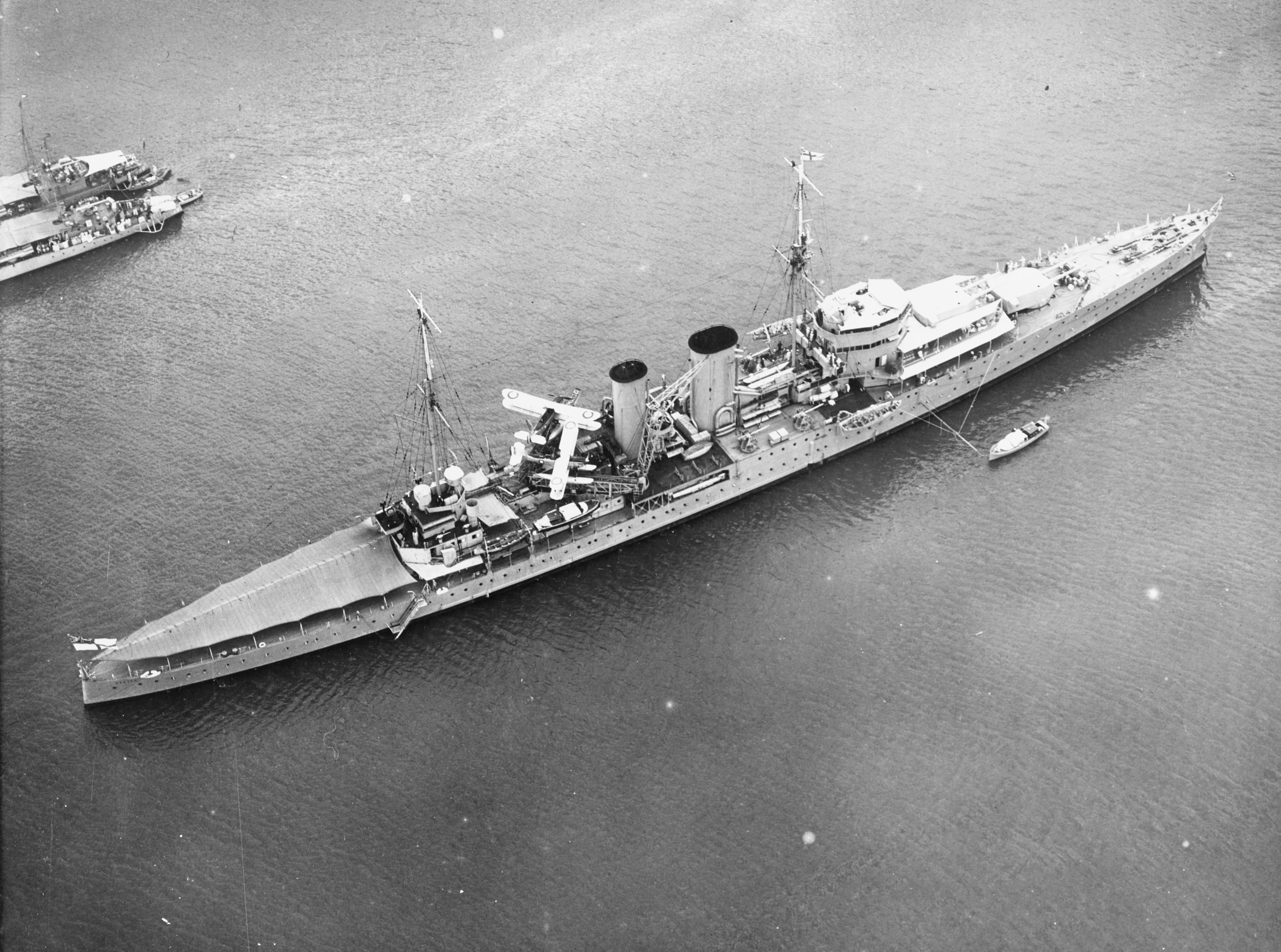 Oblique aerial view of HMS Exeter (68) at anchor in Balboa harbour, Panama, on 24 April 1934.